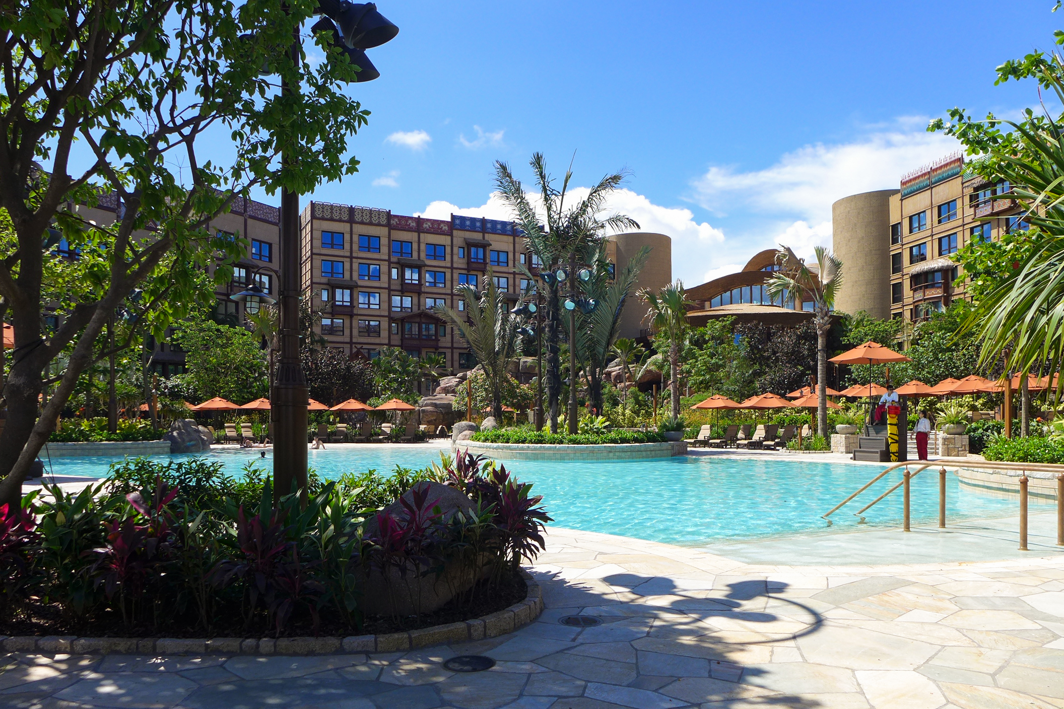 Disney Explorers Lodge